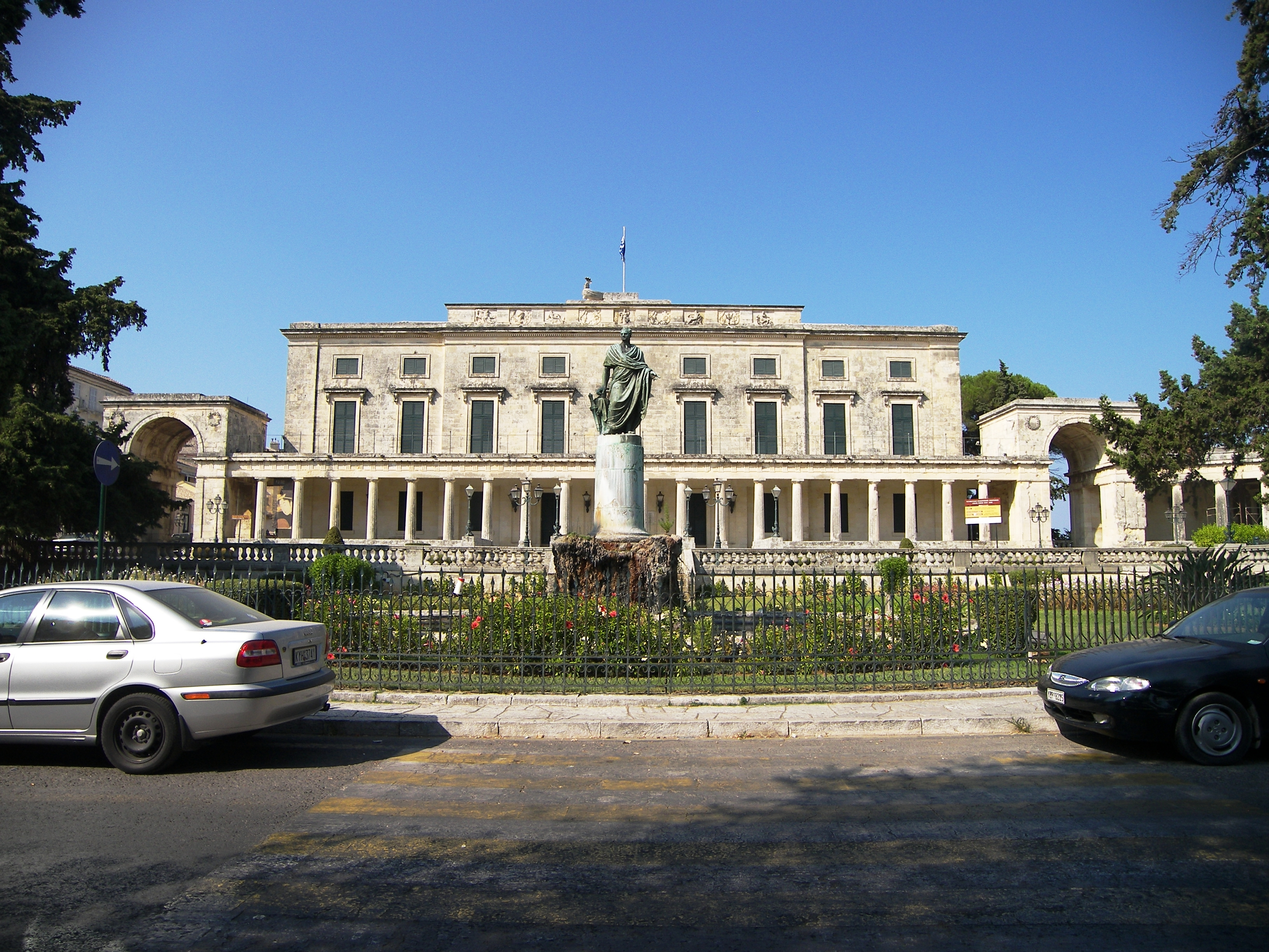 Please see filename